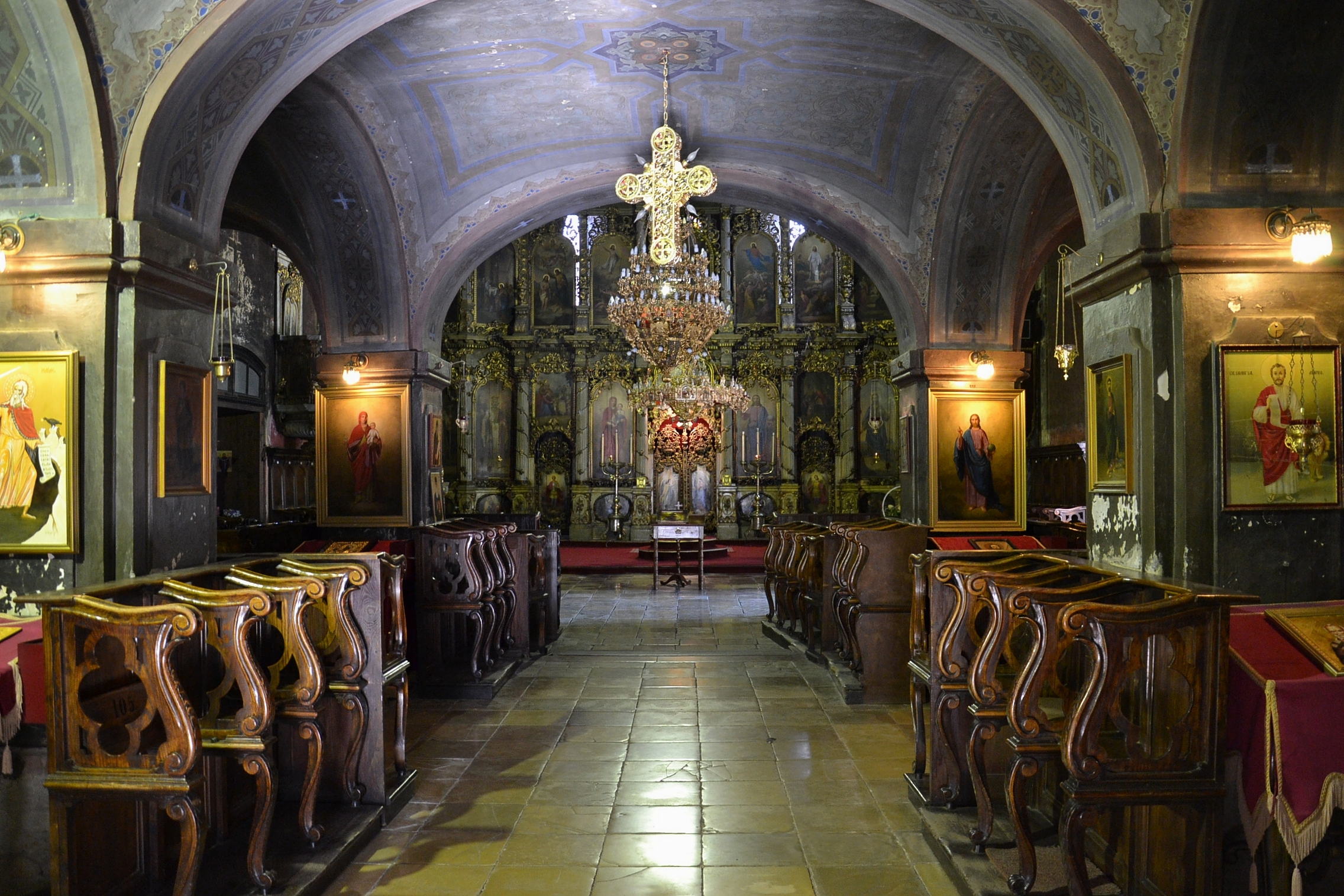 Sombor (Zombor), Vojvodina - orthodox church - interior